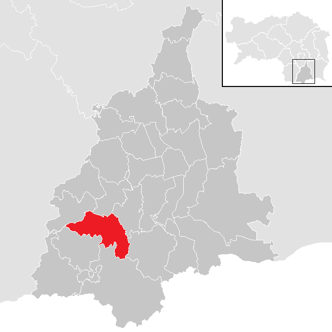 District Leibnitz